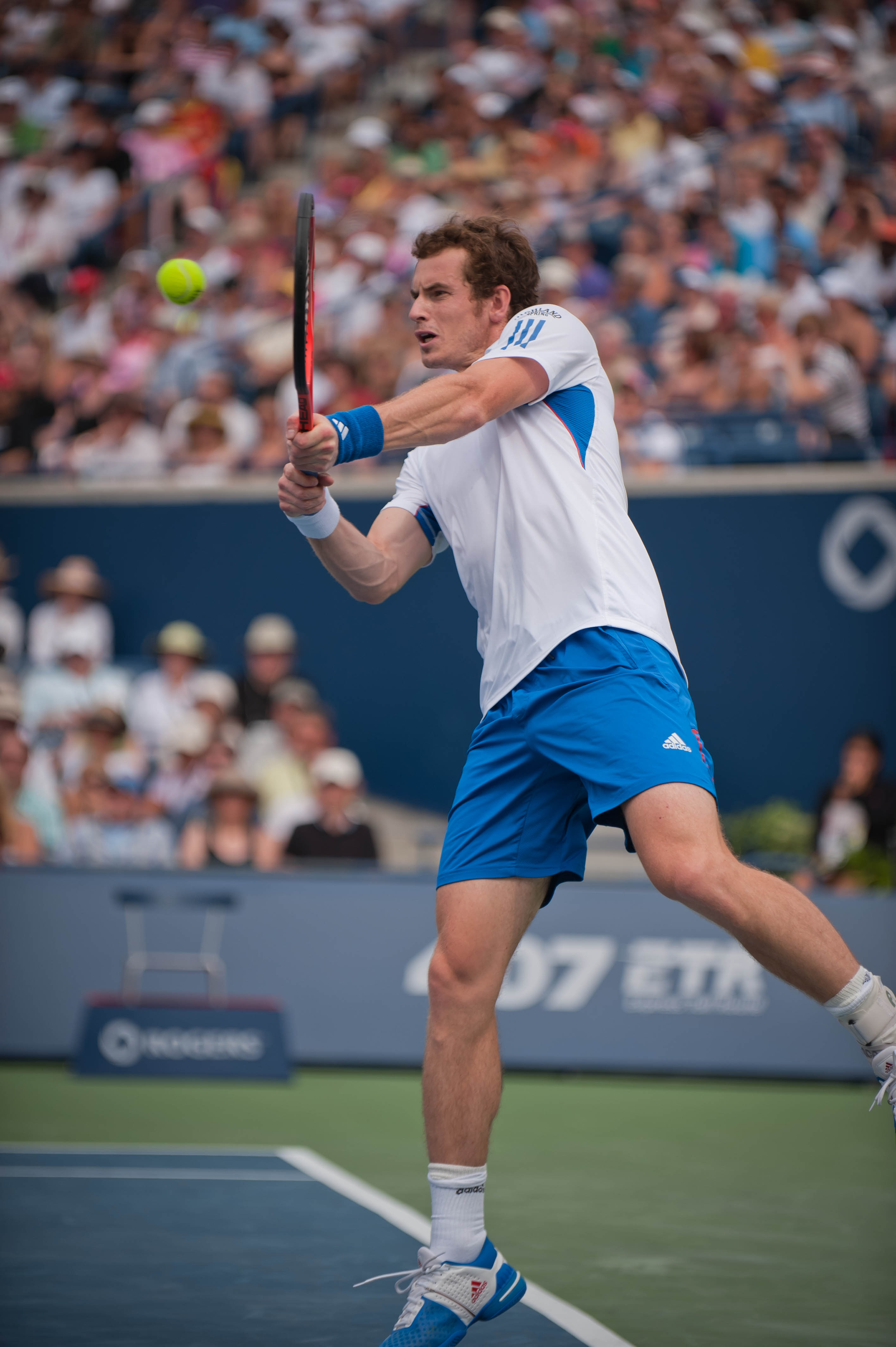 Andy Murray hitting a backhand against Rafa Nadal, in the semifinal of the Rogers Cup.